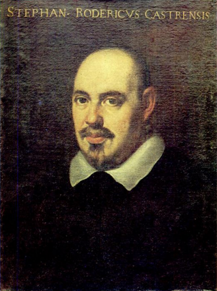 Estêvão Rodrigues de Castro (1560-1638) Poetry works